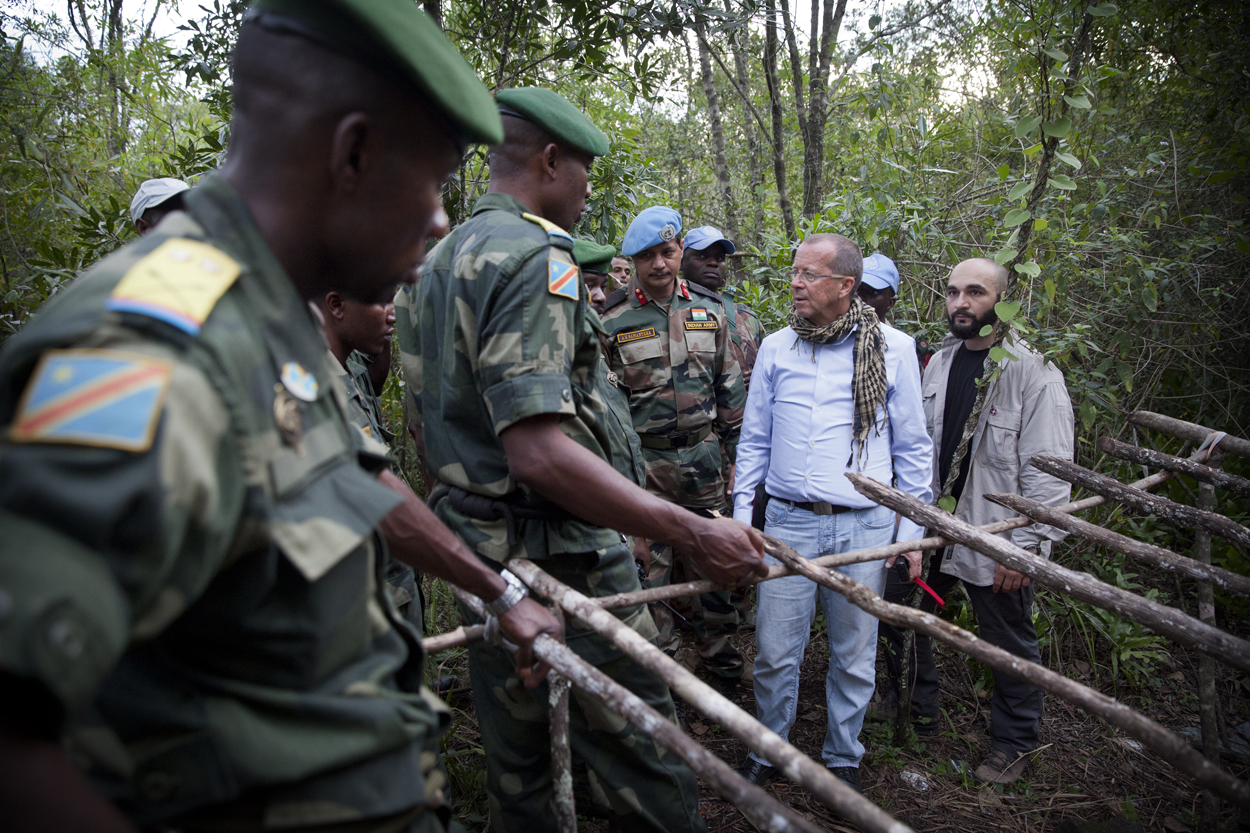 SRSG Martin Kobler is being shown former FDLR hideouts by governmental forces during joint operations against FDLR, the 19th of March 2014. © MONUSCO/Sylvain Liechti